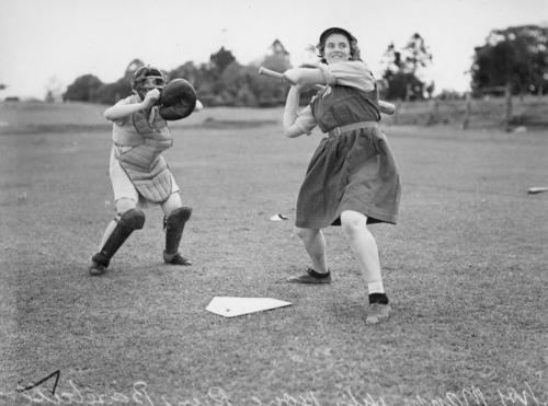 From source: Two girls playing baseball, Brisbane, 1940